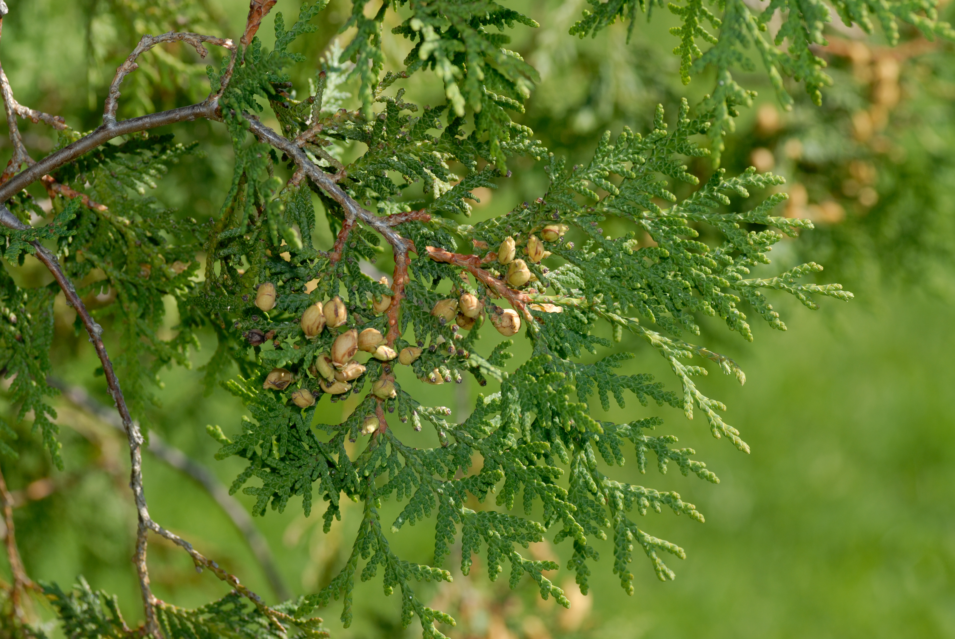 This image shows the a plant of the species Thuja occidentalis.